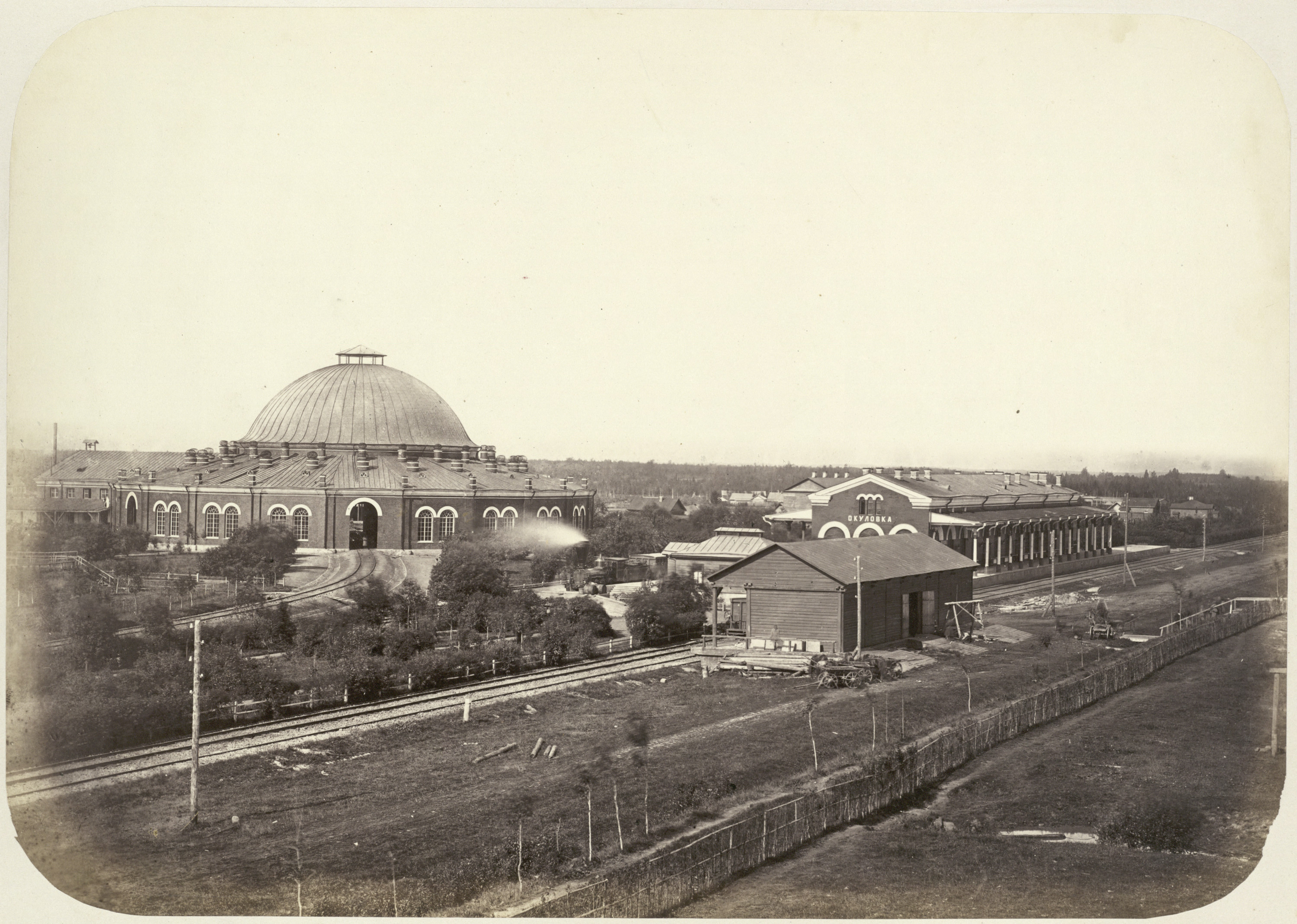 Okulovka station. Roundhous. Moscow-Saint Petersburg Railway